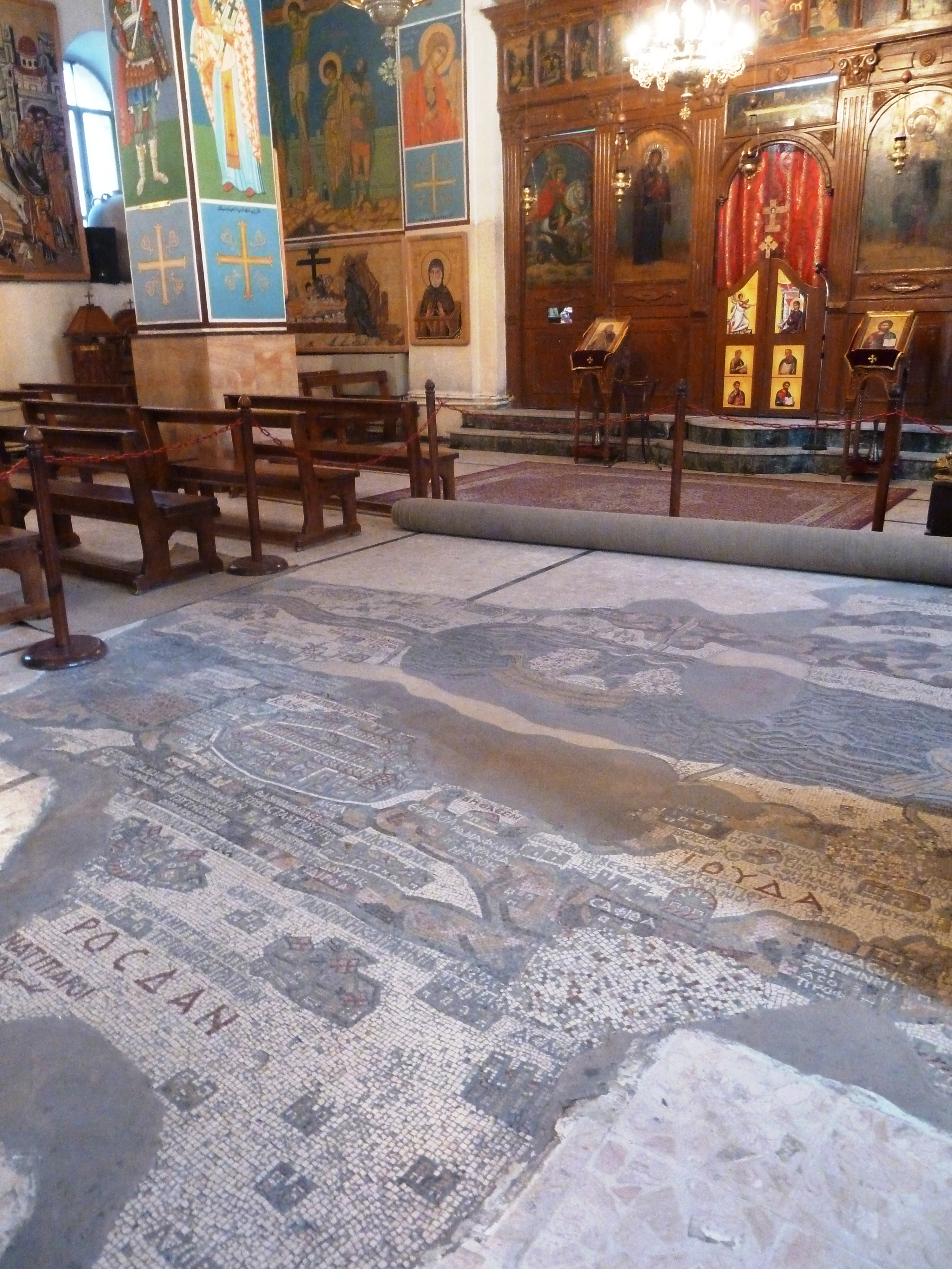 Byzantine floor mosaic map at St. George Church, Madaba, Jordan